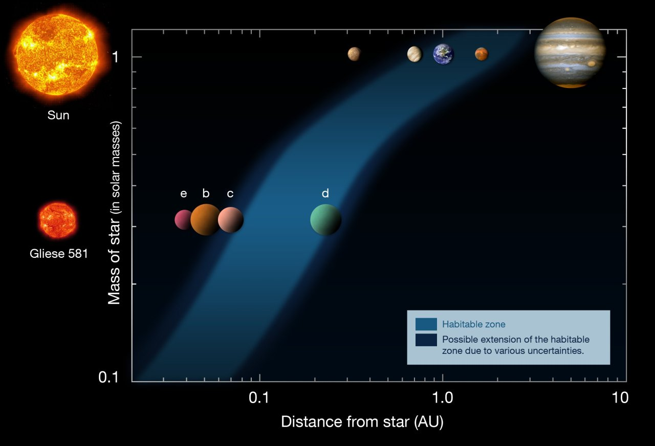 Planetary habitable zones of the Solar System and the Gliese 581 system compared; updated with the discovery of e and the relocation of d within the zone